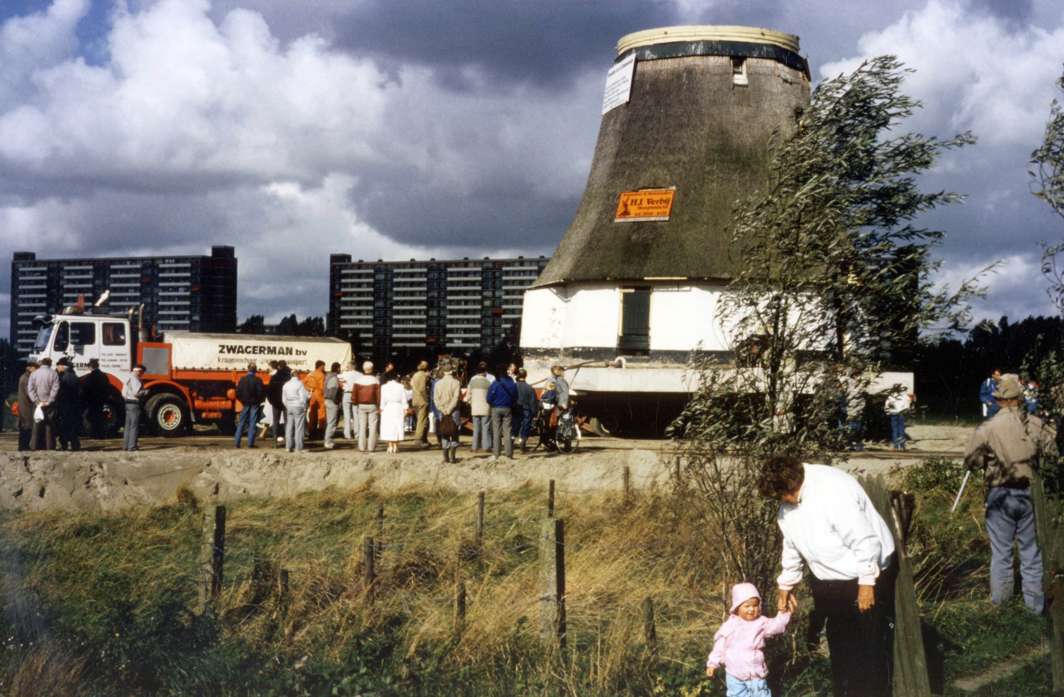 The move of the Schaapwei windmill to make place for the A4 highway